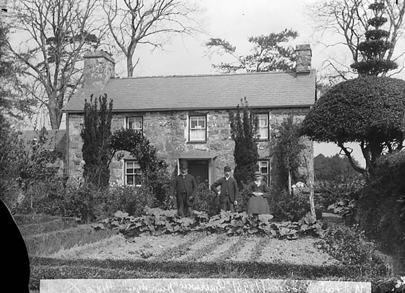 1 negative : glass, dry plate, b&w ; 12 x 16.5 cm.